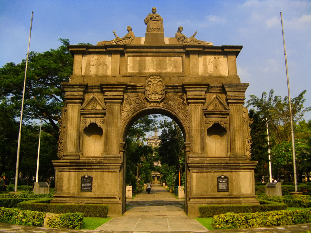 The Historic Arch of the Centuries located in the University of Santo Tomas Campus